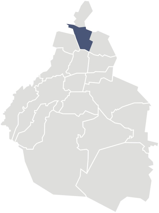 Map of the Second Federal Electoral District of the Federal District, México.